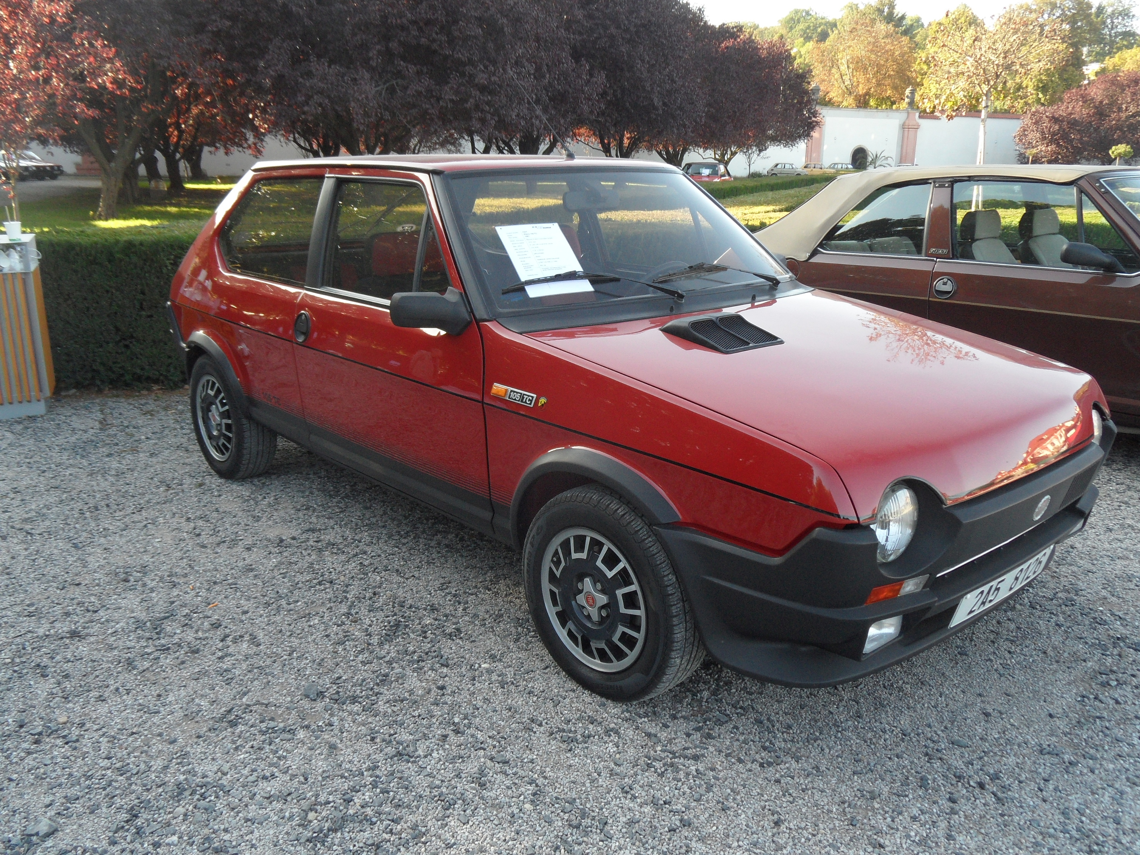 Celebrating the 120th anniversary of the founding of FIAT. K. Cars from 1980s and 1990s: FIAT Ritmo 105 TC, year 1981. Inline-four engine 2xOHC, 1574 ccm. Troja Palace, Prague, the Czech Republic.